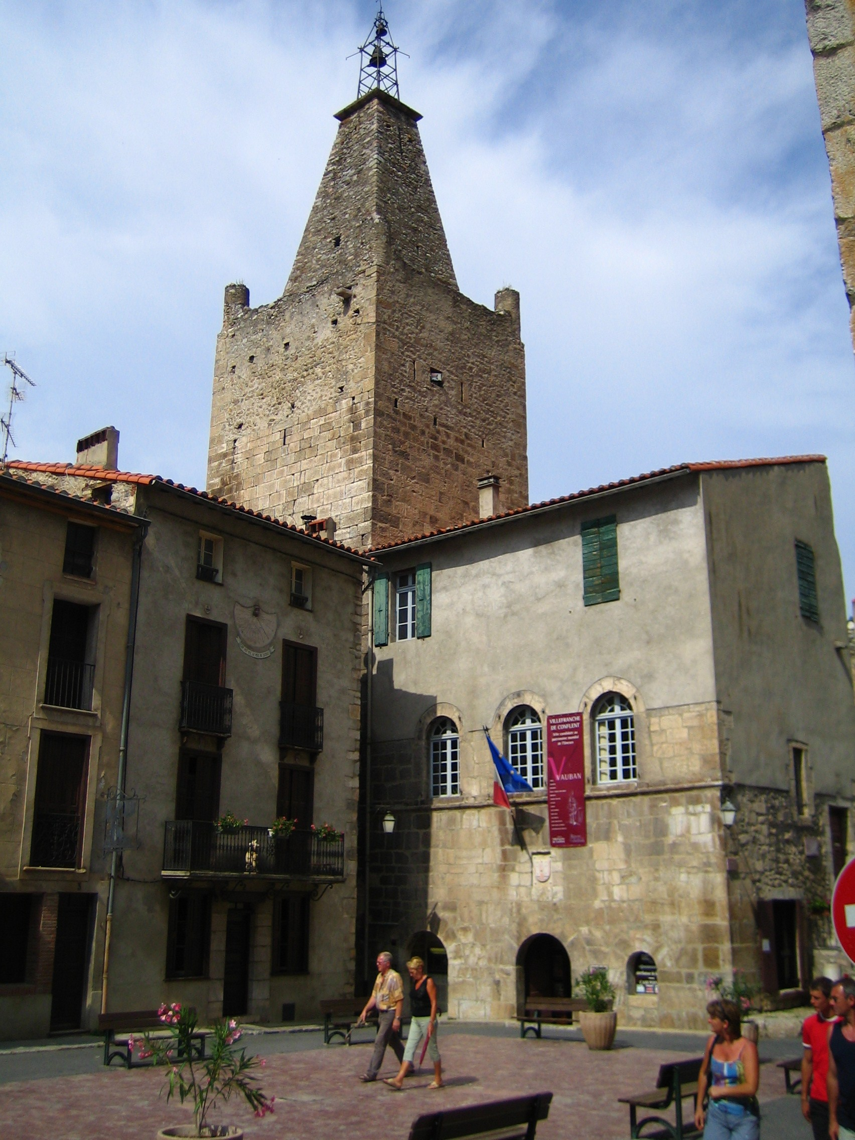 Council house in Vilafranca del Conflent (Villefranche-de-Conflent). The old "veguer" (royal officer) house.